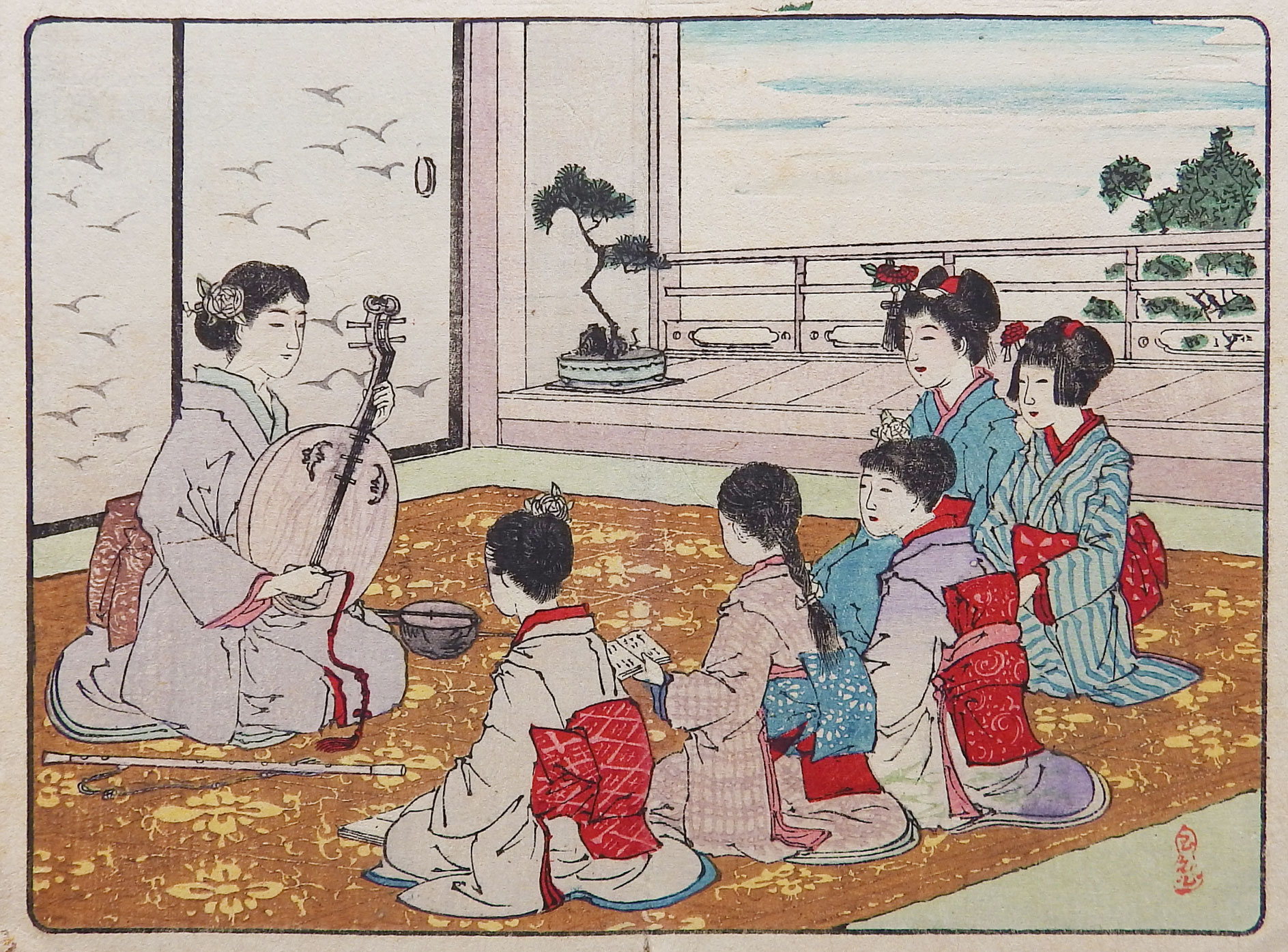 A female master NAGAHARA Baien with the gekkin (yueqin, or moon guitar) in her hands, and her girl pupils. All of them are in kimono. This picture was a illustration of the music text book published in 1889 in Japan.